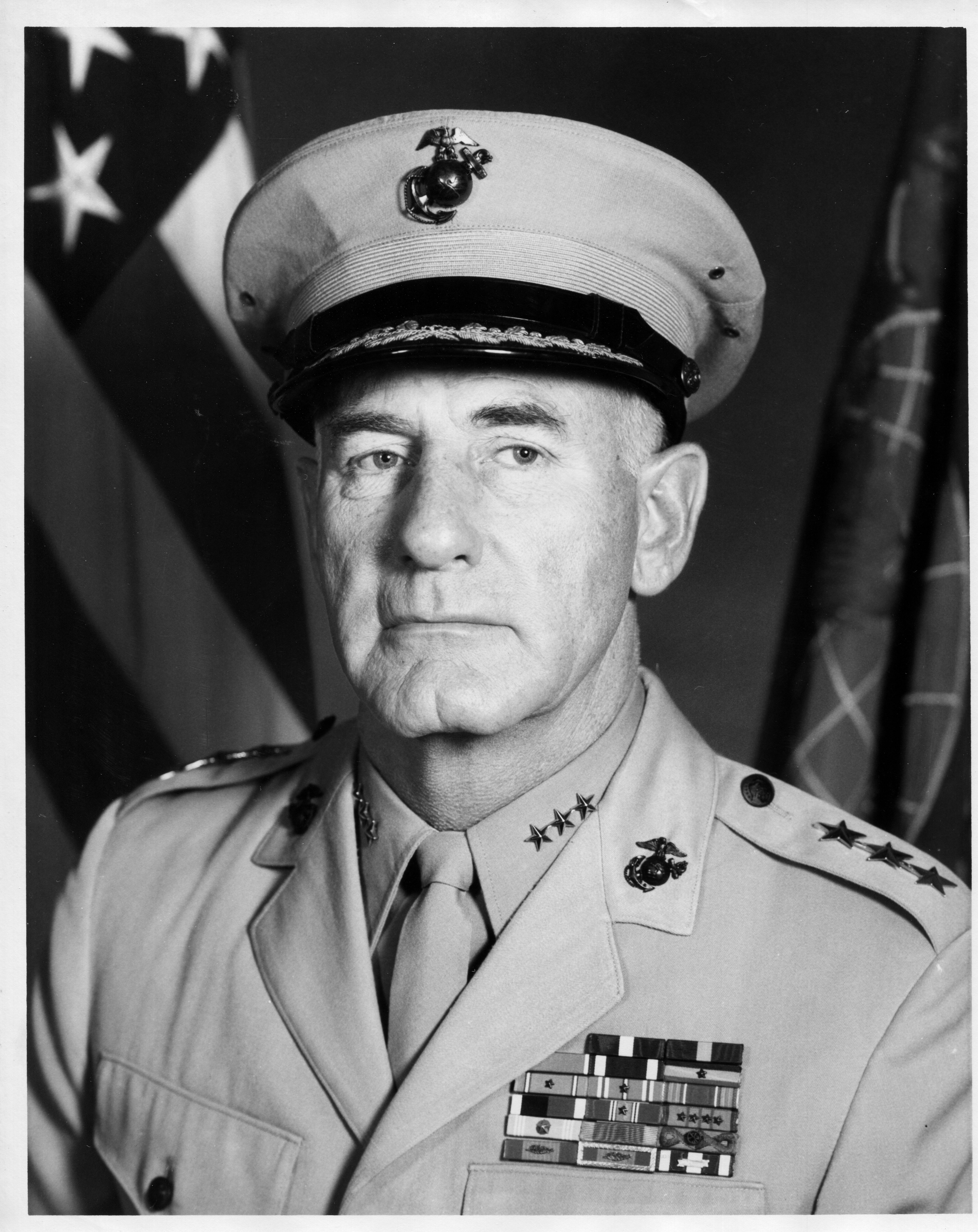 Donn John Robertson (September 9, 1916 - March 4, 2000) was a highly decorated officer of the United States Marine Corps with the rank of Lieutenant General. He is most noted for his service as Commanding General of III Marine Amphibious Corps and 1st Marine Division during Vietnam War.